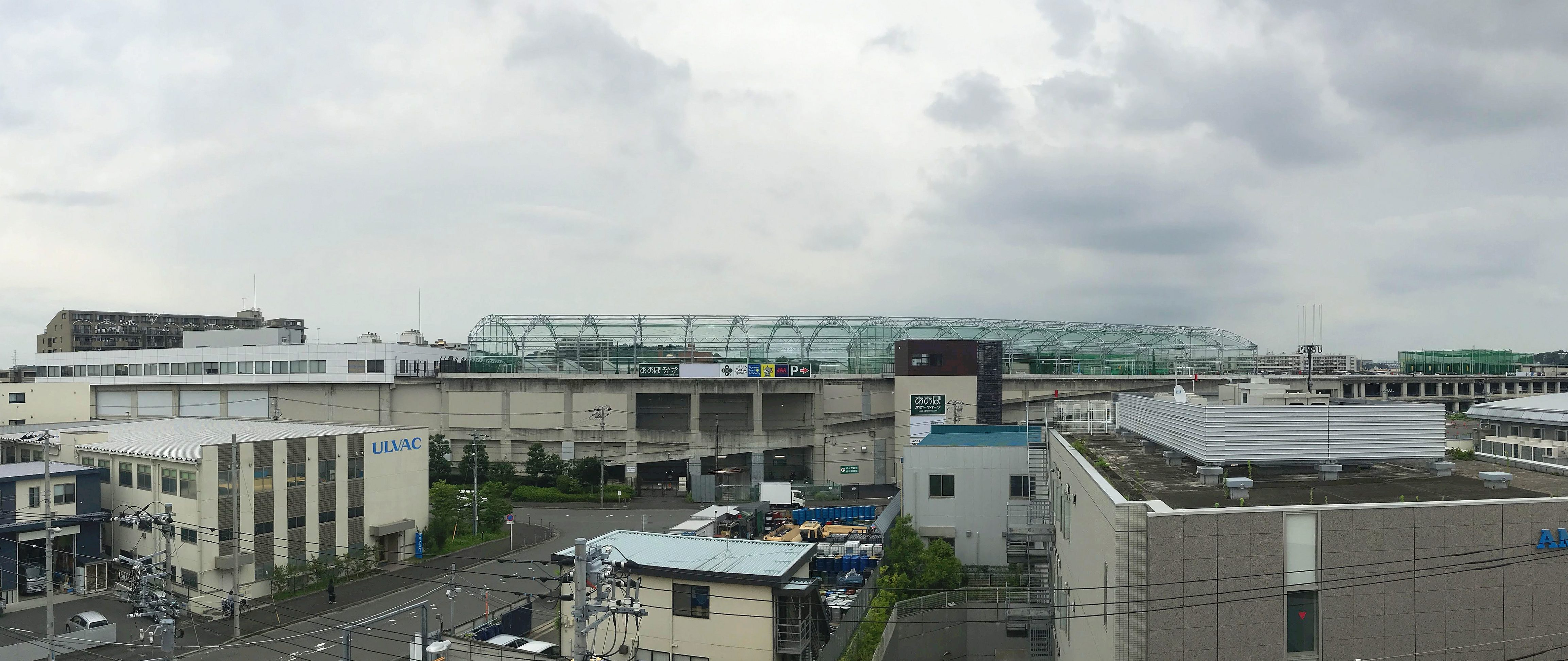 A panoramic view of Nippa train base on the Yokohama municipal subway Blue line.